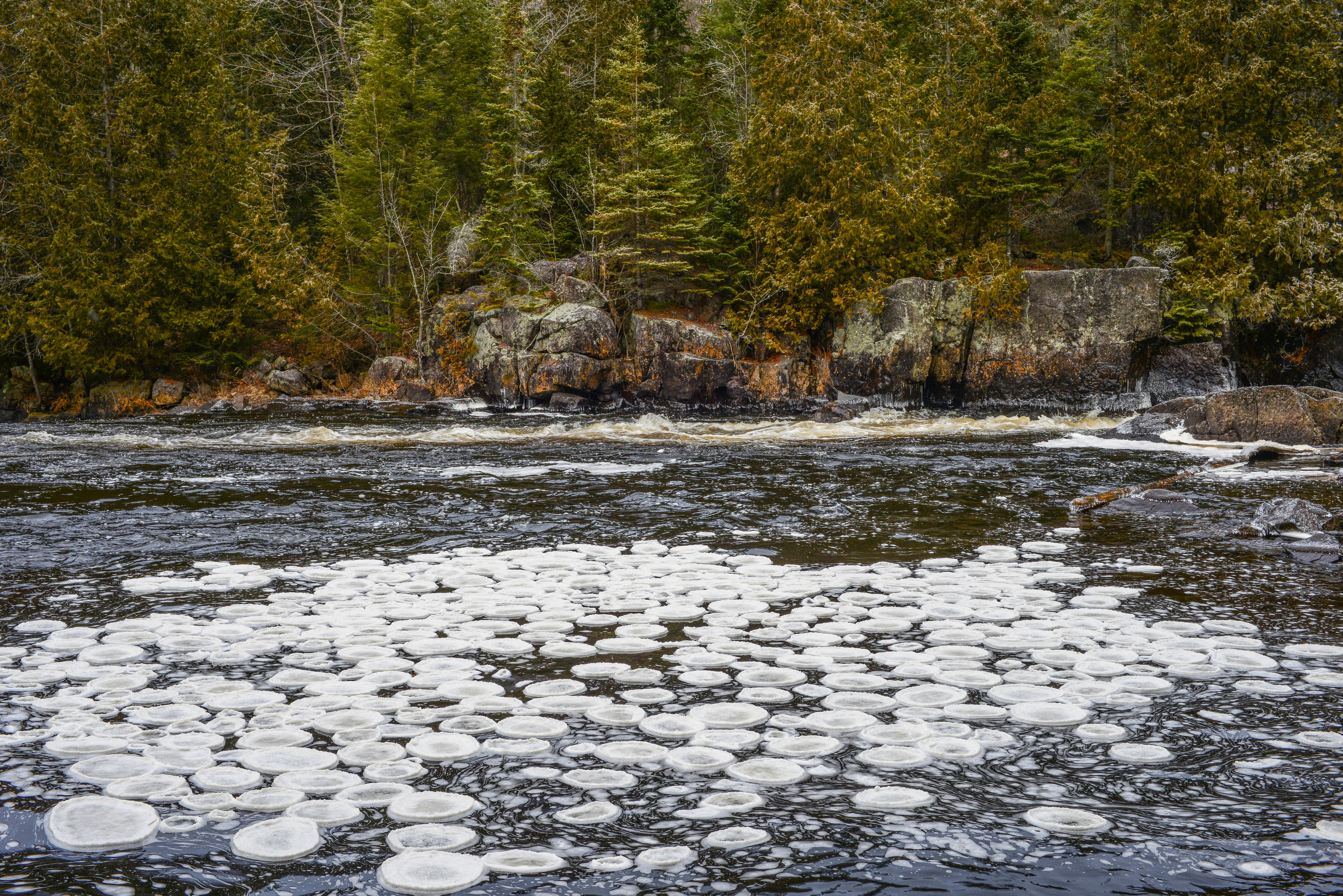 Ice disks on the Doncaster River, Quebec